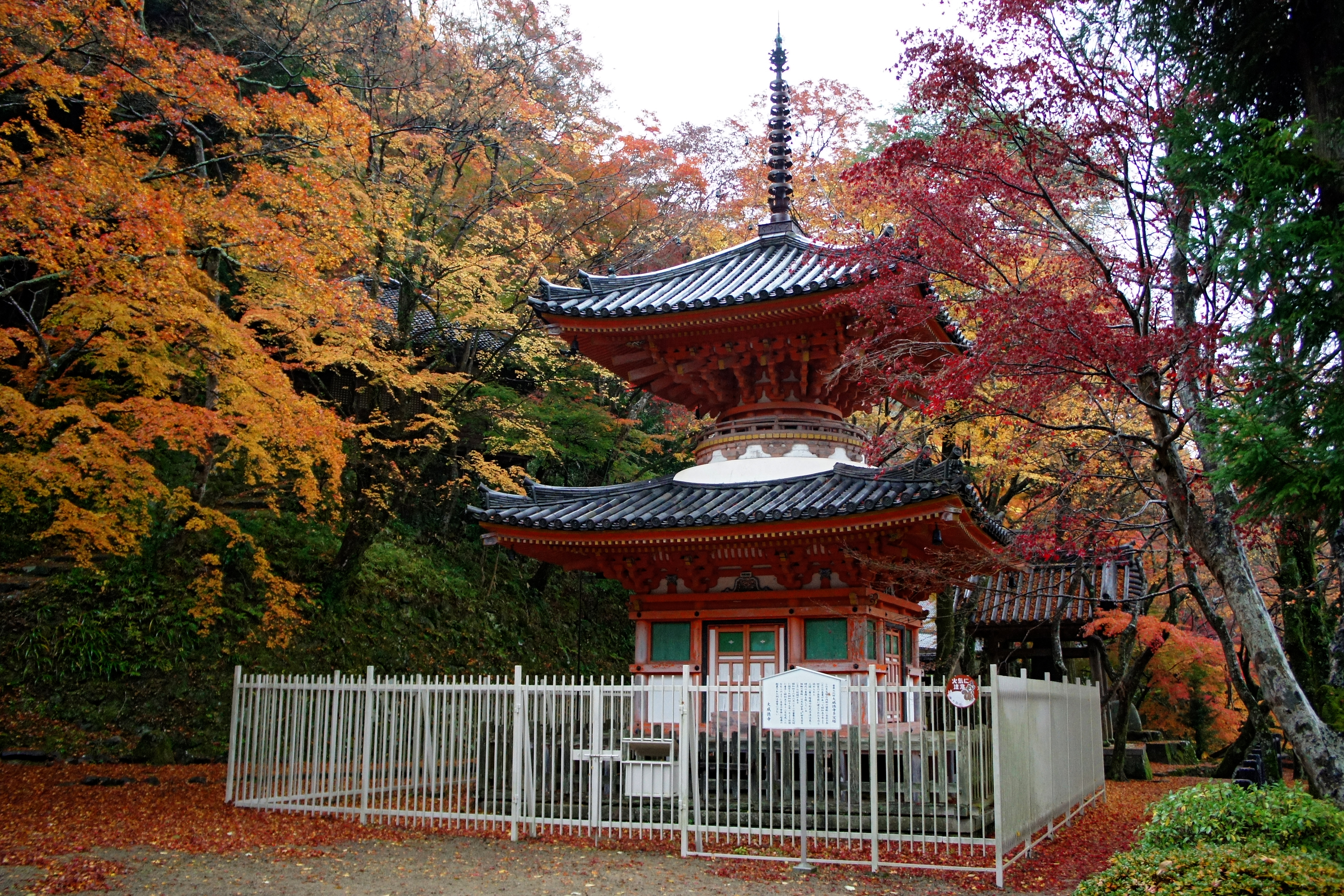 Tahōtō of Dai-itoku-ji in Kishiwada, Osaka prefecture, Japan